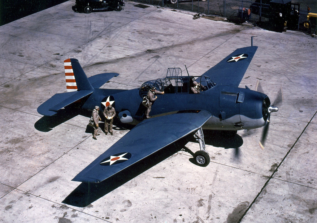 Grumman TBF Avenger with early 1942 markings.